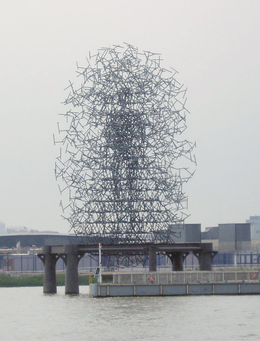 A less well known sculpture by a famous artist, Antony Gormley. Added to 'cream of the crop' as best of 2004Millenium Man